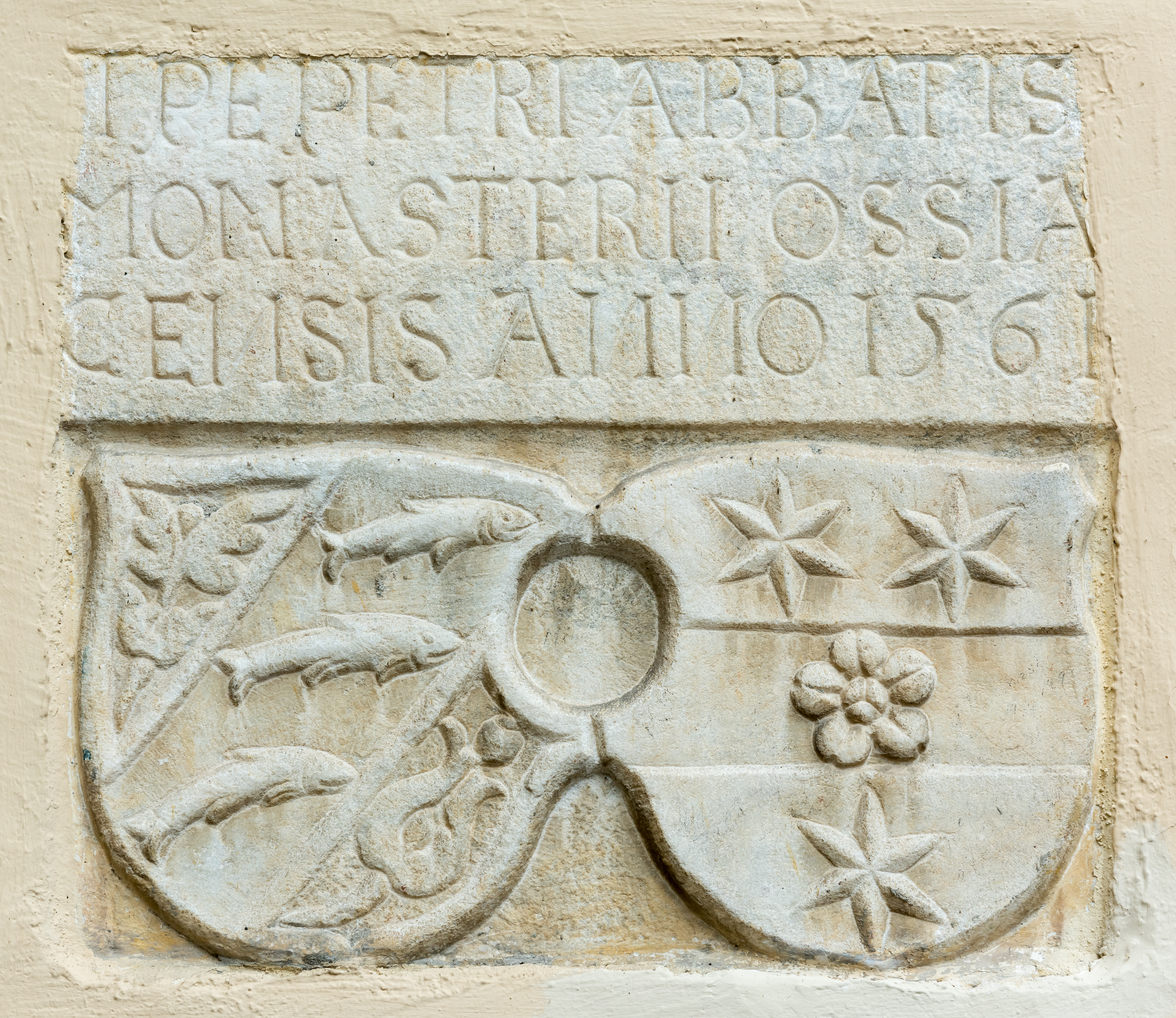 Inscription of the monastery Ossiach (1561) and the relief stone with the coats of arms of monastery Ossiach (left hand) and the abbot Petrus Groeblacher (1556 - 1587), right hand, over the portal of the restaurant Seewirt in Ossiach #2, municipality Ossiach, district Feldkirchen, Carinthia, Austria, EU